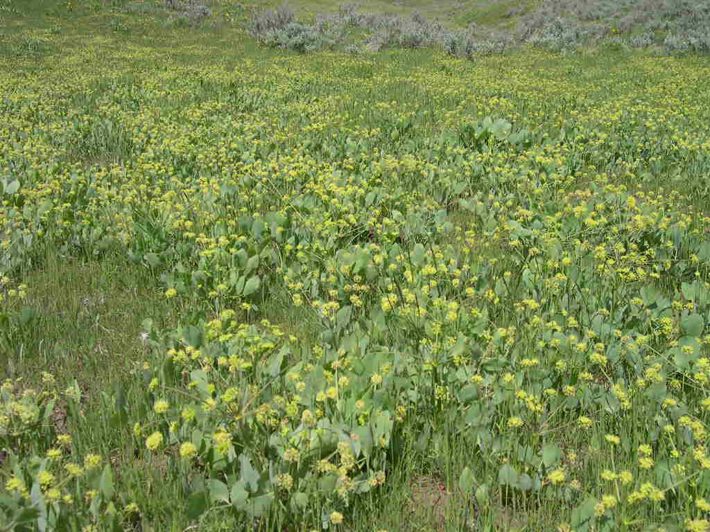 Lomatium_nudicaule in southwest Idaho